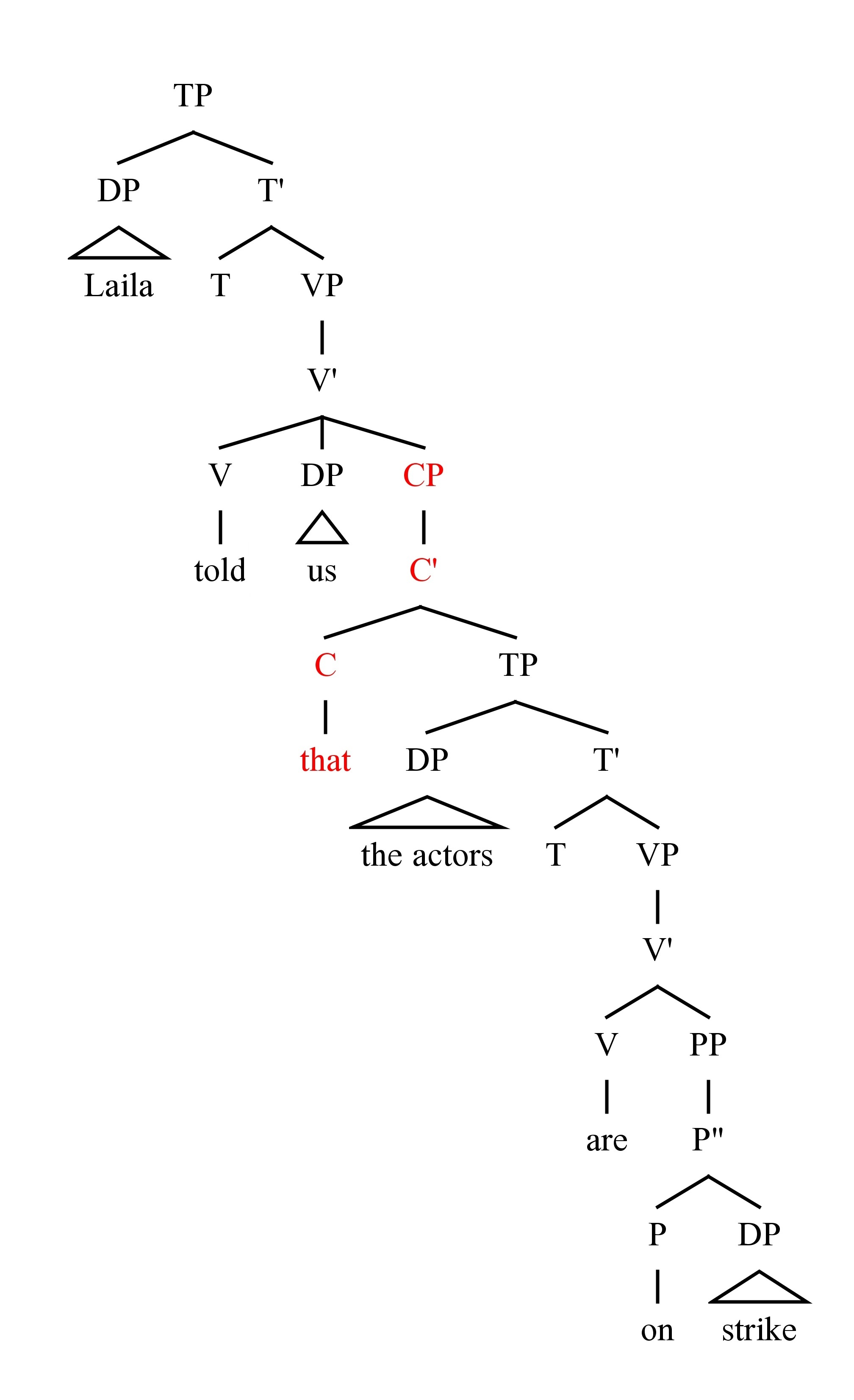 c-type relativizer tree